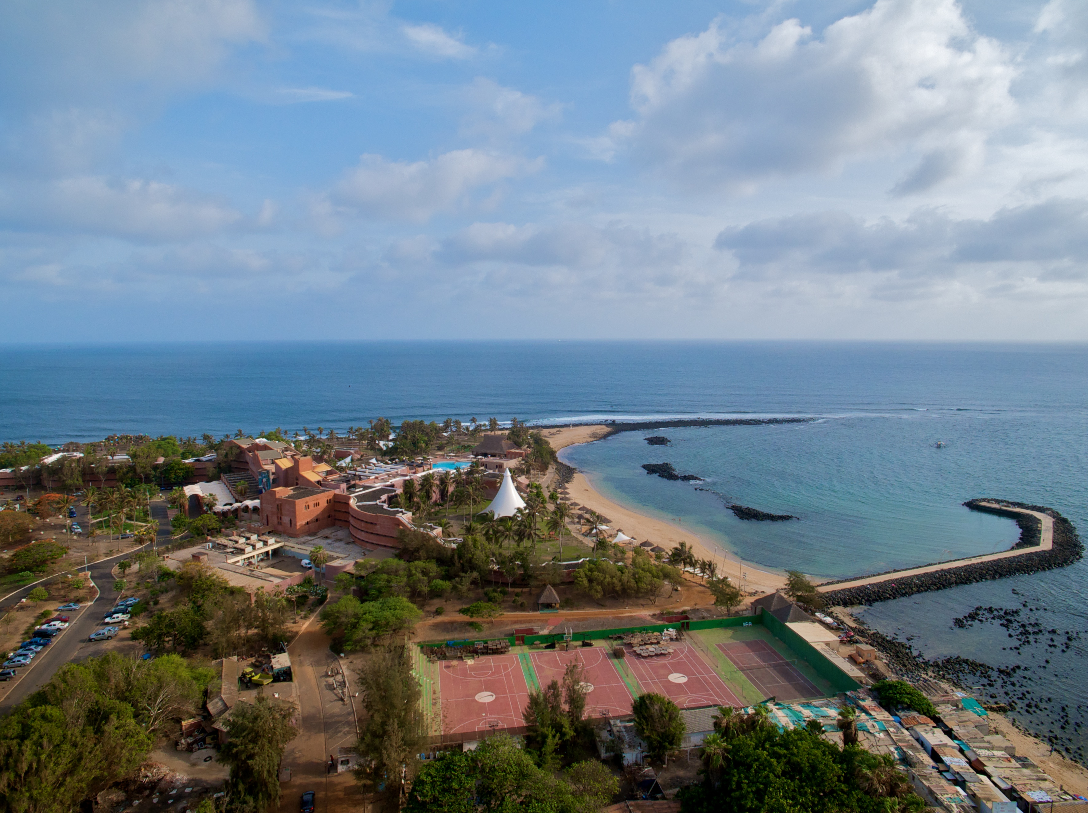 Pointe des Almadies, the westernmost point of the African continent (mainland), located in the area of Dakar, Senegal. The point is within the vacation resort Club Med.